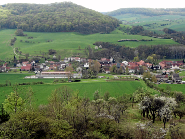 The village of Löberschütz in Germany, Photo from a nearby hill